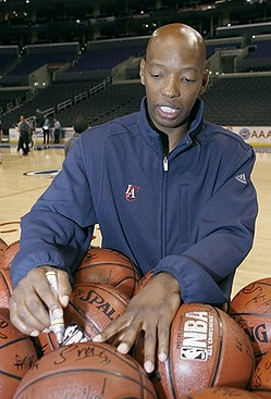 Sam Cassell is signing basketballs at a shootaround in the Staples Center